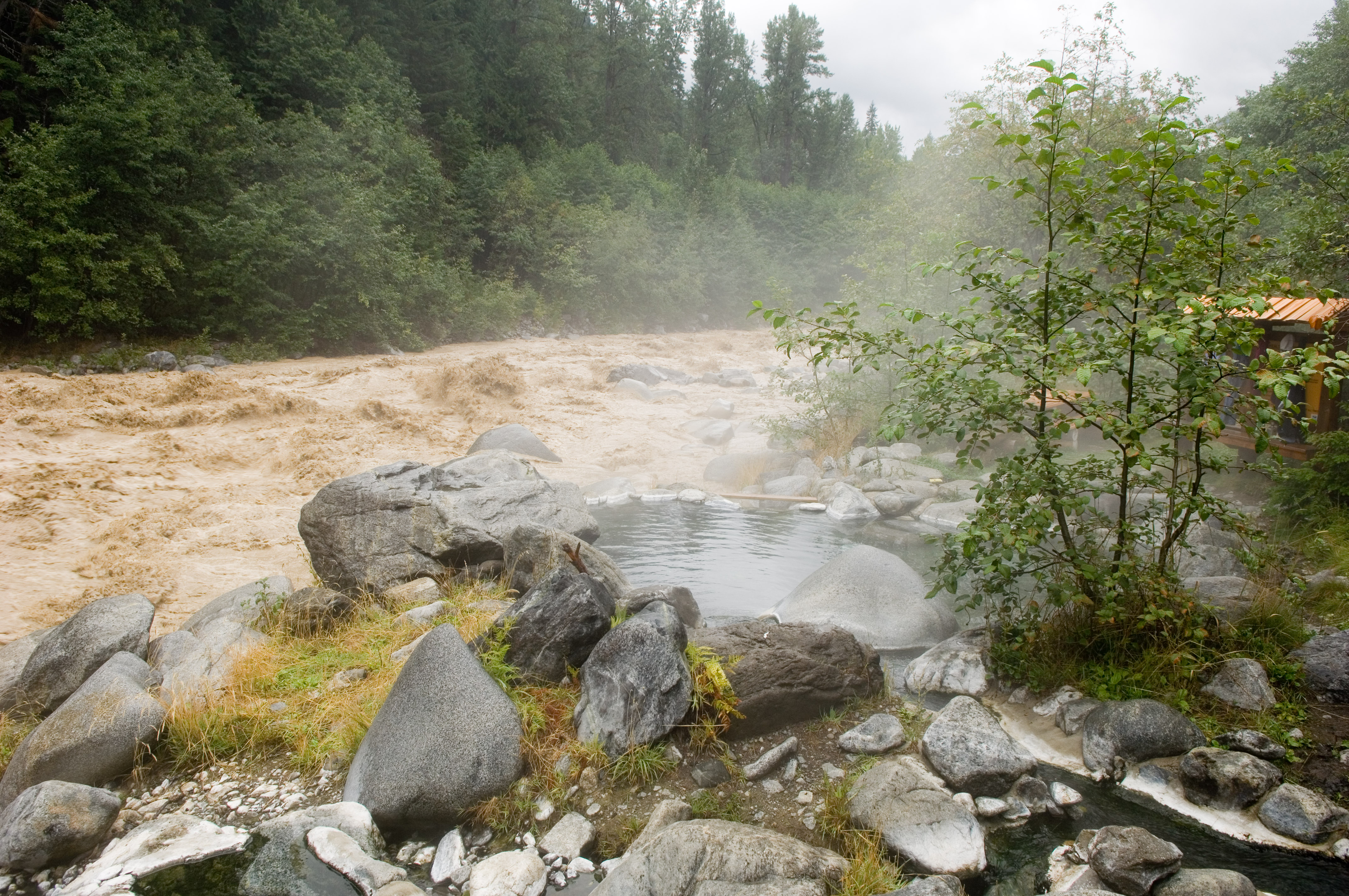 A Hot spring next to Meager Creek. Meager Creek is swollen from several days of hard rain.